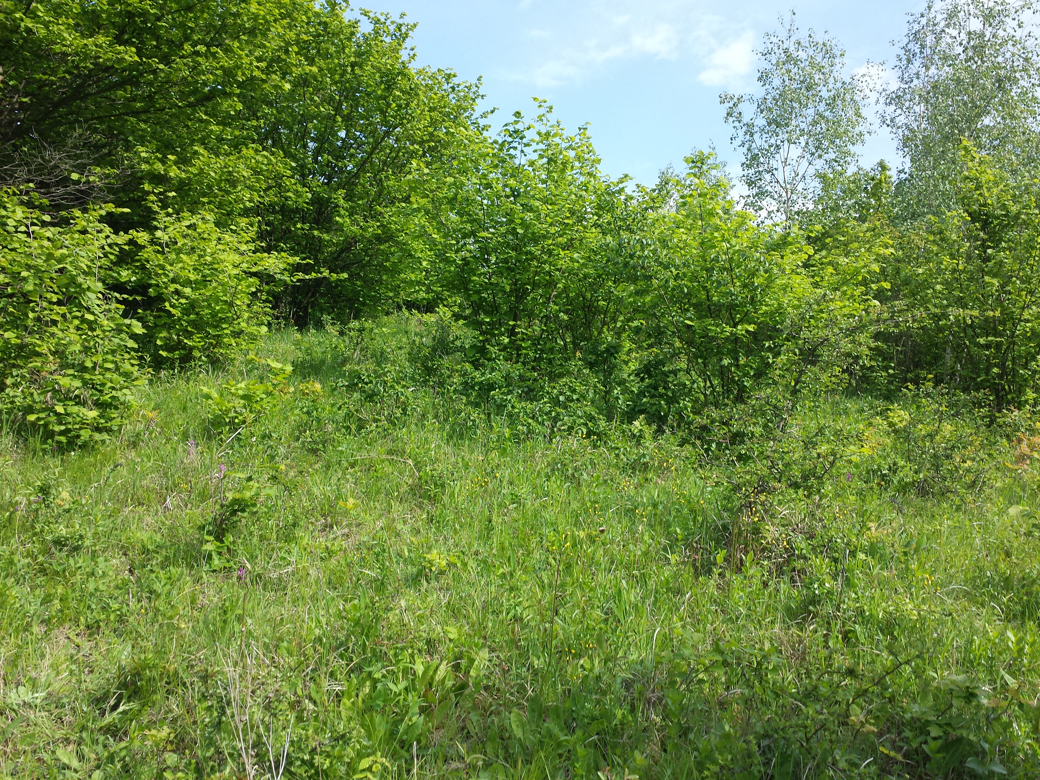 Habitat Taxonym: Crepis praemorsa ss Fischer et al. EfÖLS 2008 ISBN 978-3-85474-187-9 Location: between Hausberg near Enzersdorf im Thale and Burgstall near Haslach, district Hollabrunn, Lower Austria - ca. 300 m a.s.l. Habitat: semi-dry grassland / shrubbery